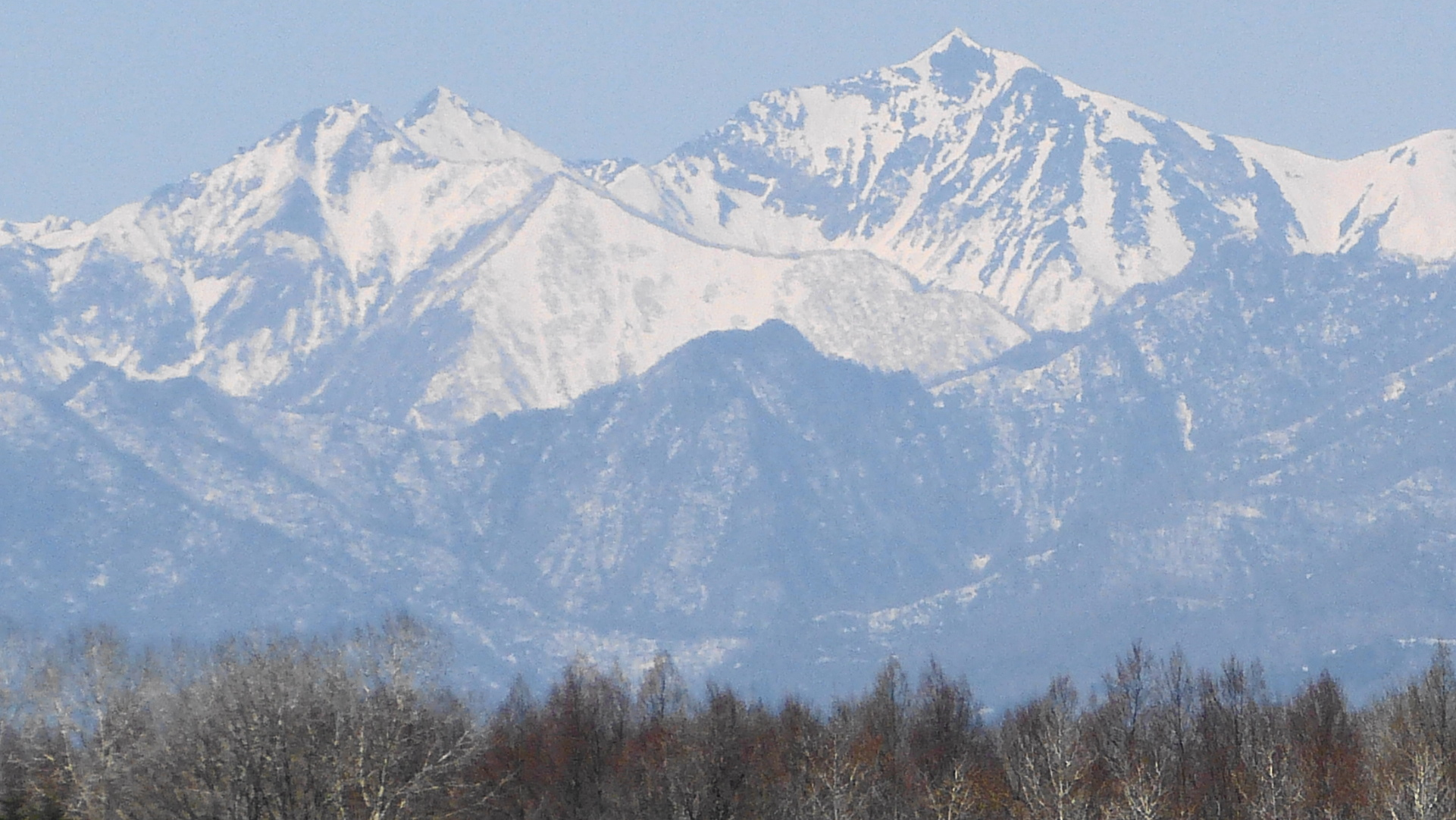 Left: Mount Pyramid, Right: Mount Kamuiekuuchikaushi, in Hokkaido, Japan